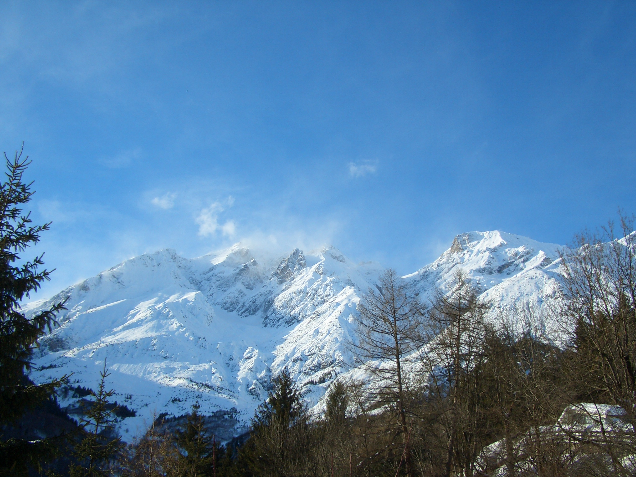 Parseiergroup of the Lechtal Alps above Grins, Austria, with mountains Dawinkopf, Bockgartenspitze, Parseierspitze and Gatschkopf.